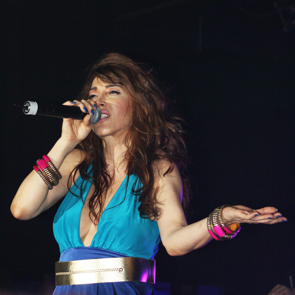 Hande Yener